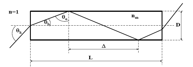 Light reflection in an optical fiber